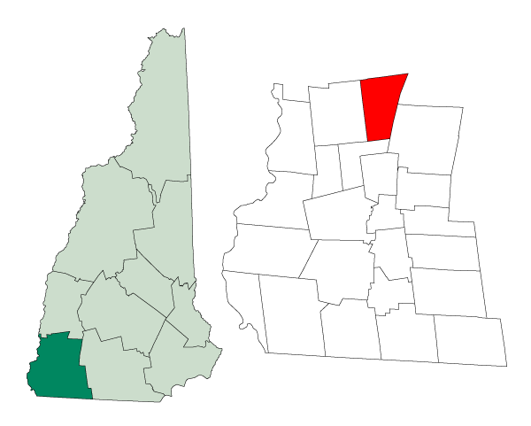 Map of a municipality in Cheshire County, New Hampshire